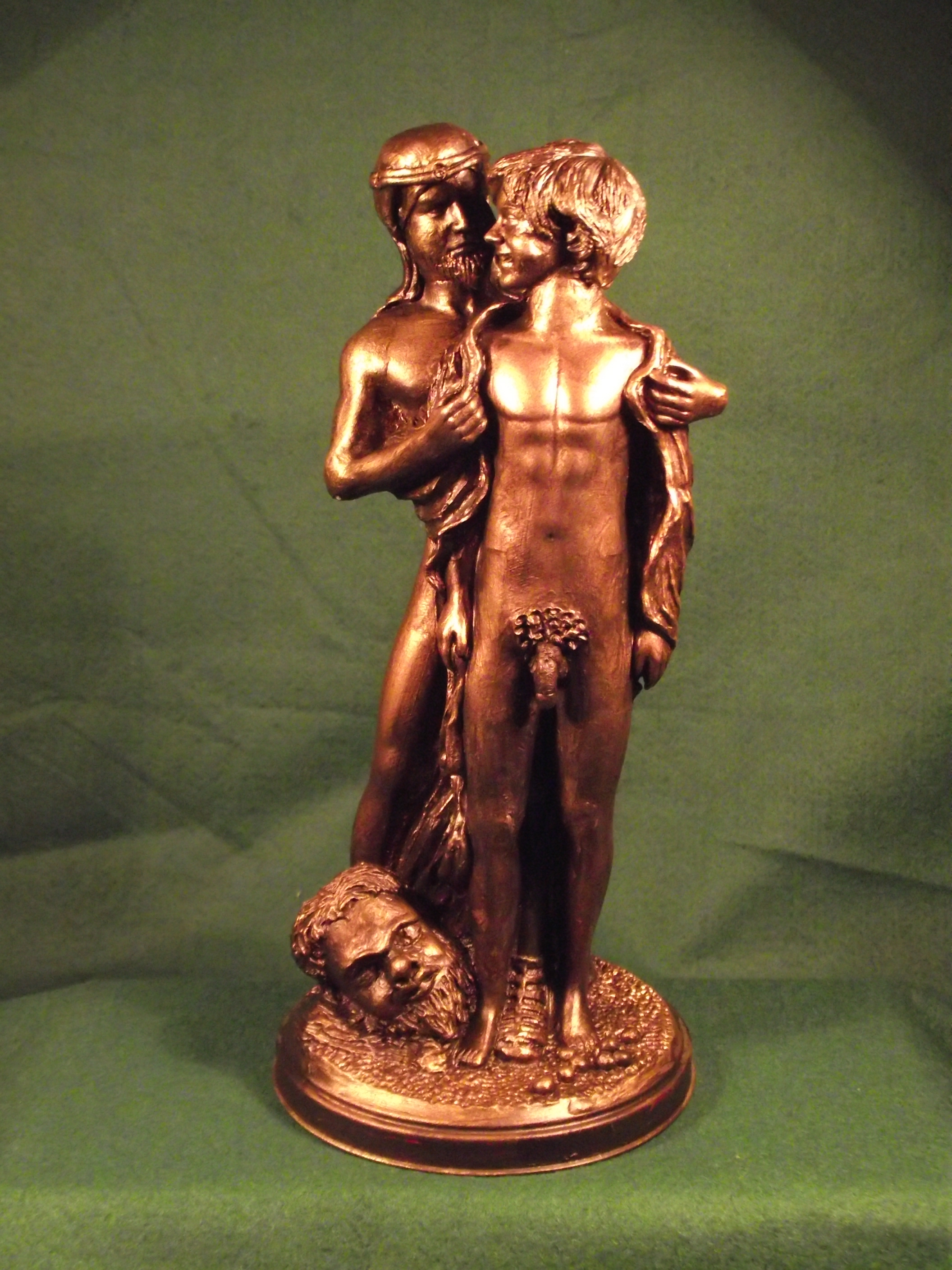 David and Jonathan. (Bible) Composite constructed sculpture of historical figure(s) reputed to have had a same sex relationships. Made of various materials & found objects with thin veneer film of bronze patina-ted paint giving appearance of solid bronze. A Metaphor of the appearance of solidity of LGBT rights & equality in law in the UK. Created by artist Malcolm Lidbury for 2016 LGBT History & Art Project Cornwall UK.